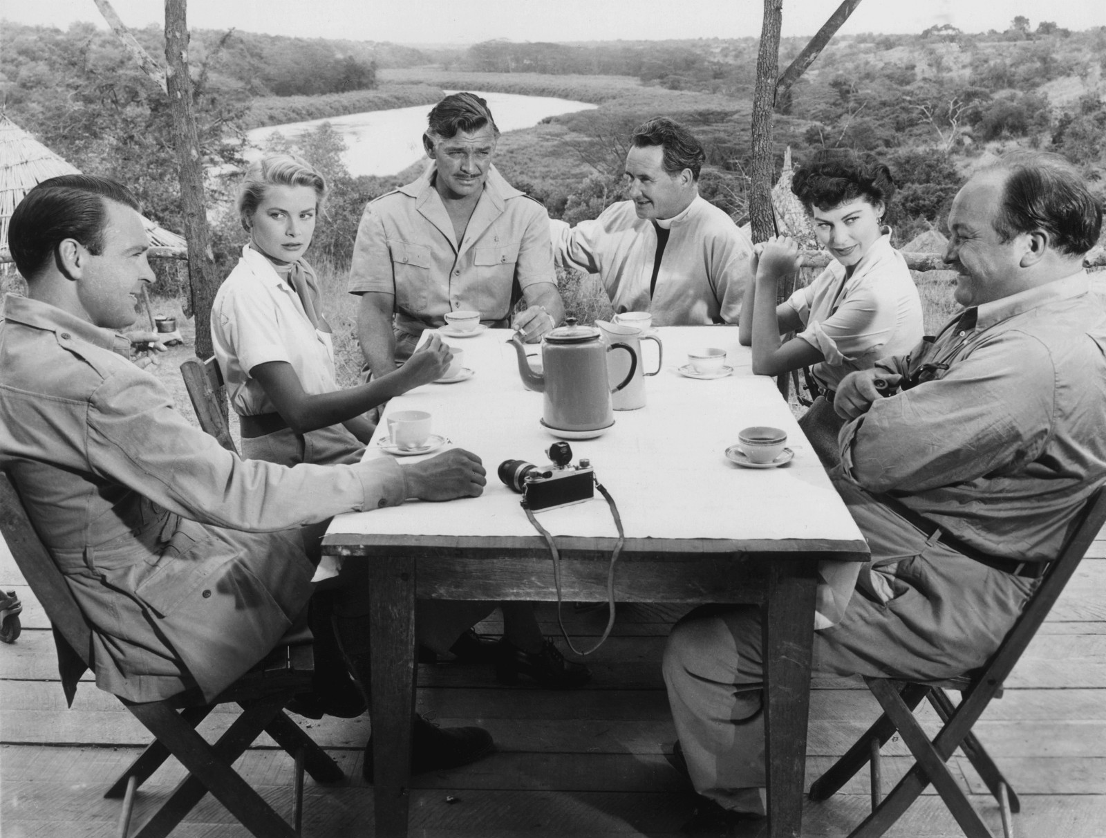 L. to R. : Donald Sinden, Grace Kelly, Clark Gable, Denis O'Dea, Ava Gardner & Eric Pohlmann on the set of Mogambo (publicity still)